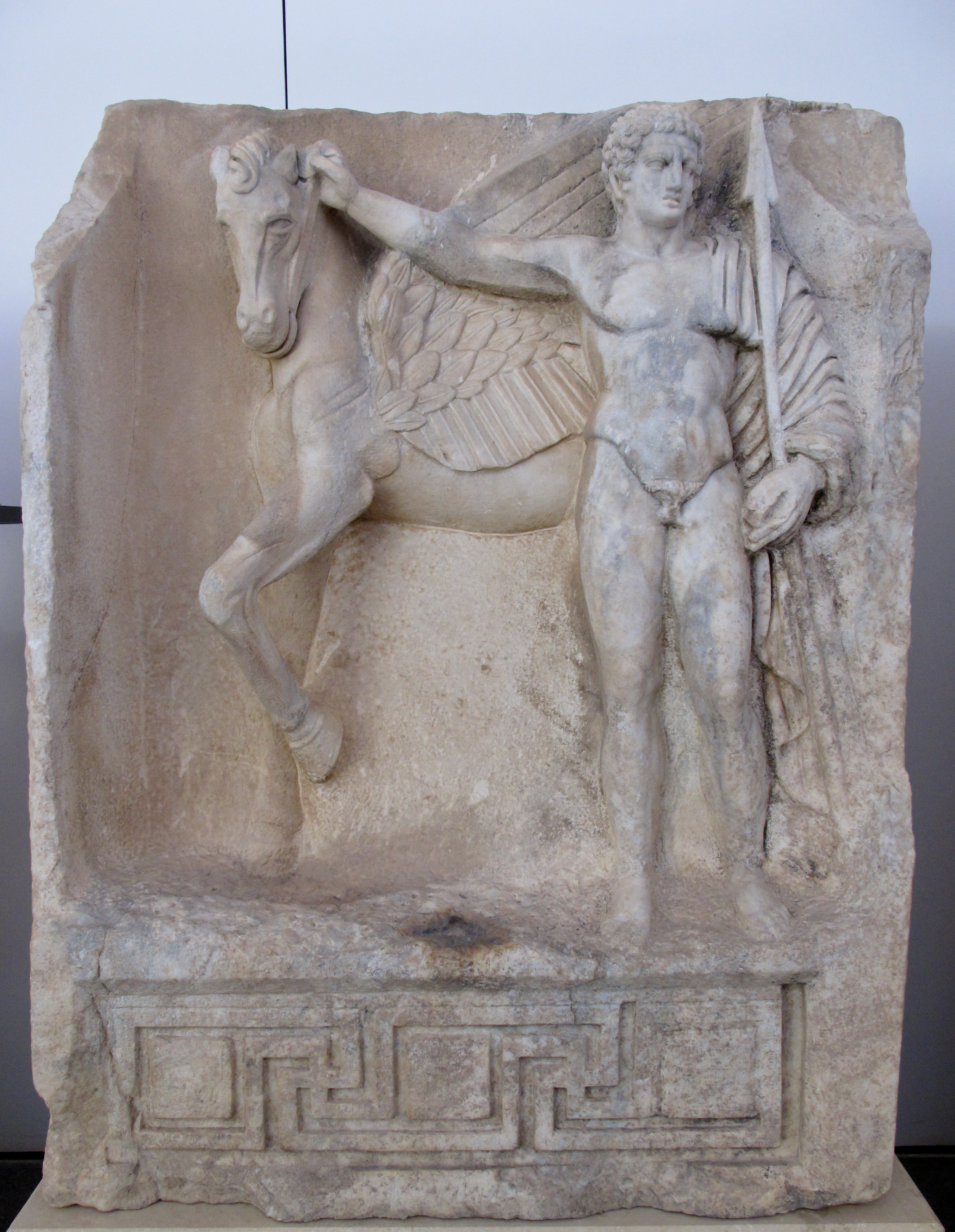 Bellerophon. He holds his winged horse Pegasus. The design was modeled on another relief panel. The carving is poor: the sculptor seems still to have been learning his craft (Aphrodisias, nowadays Turkey).